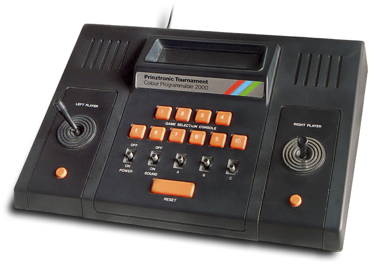 "Prinztronic Tournament Colour Programmable 2000" pong-derivative games console. (Manipulated photograph). Multicherry (uploader) says: "This is a video games console, probably from the late 1970s or thereabouts. It came with a cartridge of 10 Pong-derived games, although apparently others were available (I never had any). Prinztronic and Prinz were (I believe), an own-brand of the Dixons electronics chain in the UK during the 1970s. (Dixons' UK stores themselves have now been rebranded as "Currys Digital"). " Arosio Stefano adds : "As stated here[1] and here[2] Multicherry's cart was based around the AY-3-8610 chip and the console doesn't have a central CPU because every cartridge contains a General Instruments (GI) chip AY-3-86xx or AY-3-87xx (Pong on a chip). These chips contain most of the game system circuits. So we can say that the console belongs to the first era of consoles."